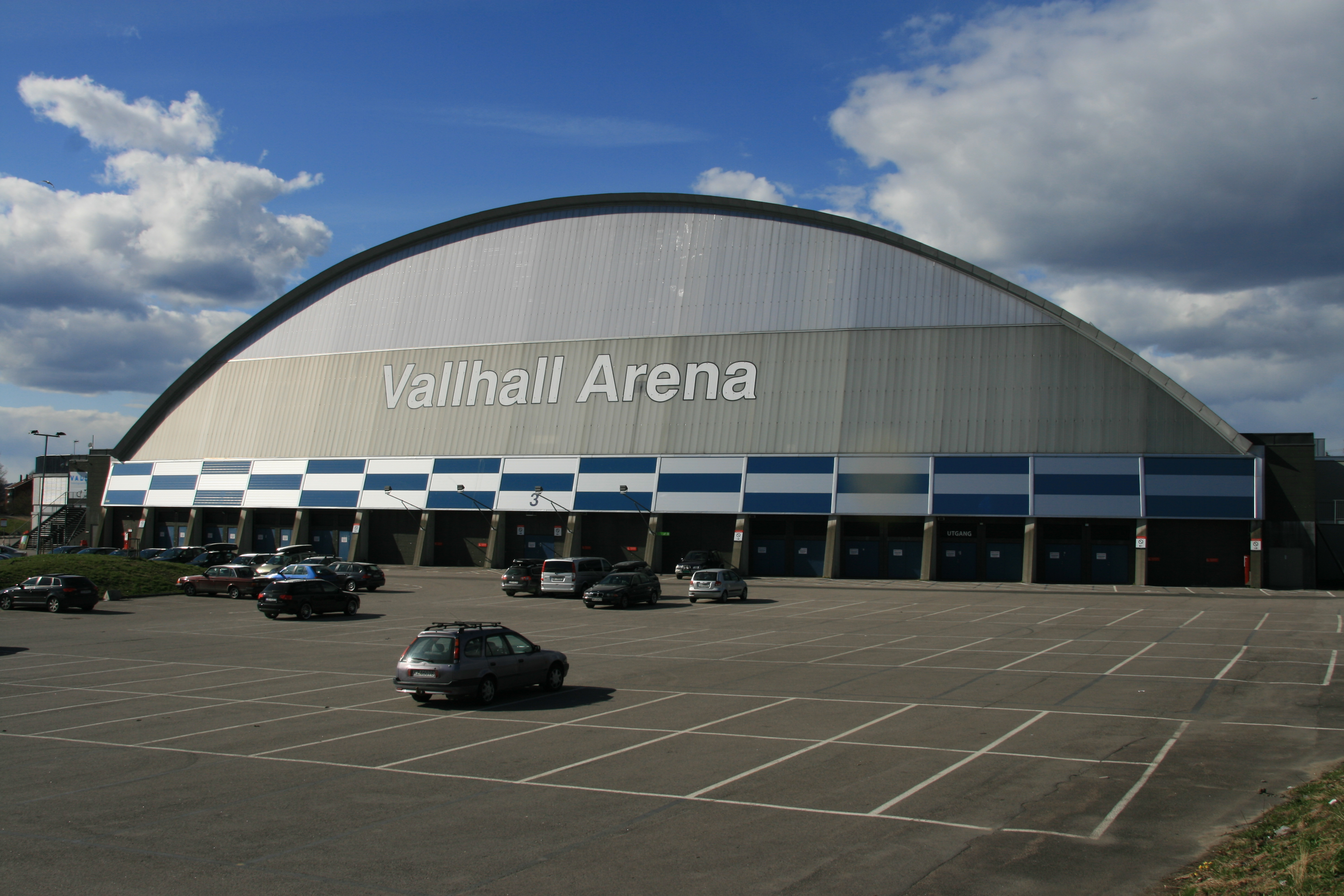 Vallhall Arena is a multi-use indoor arena located in Helsfyr, Oslo, Norway.